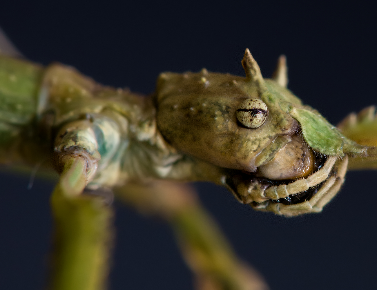 Stick insect